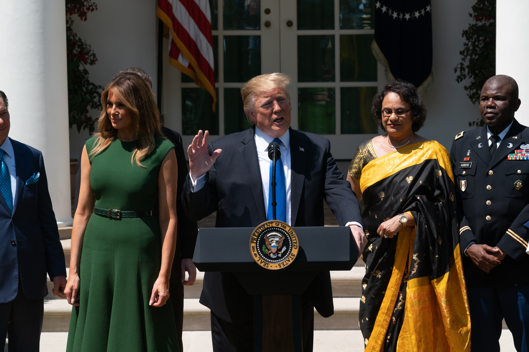 President Donald J. Trump, joined by First Lady Melania Trump and religious leaders, delivers remarks during the National Day of Prayer service Thursday, May 2, 2019, in the Rose Garden of the White House. (Official White House Photo by Andrea Hanks)